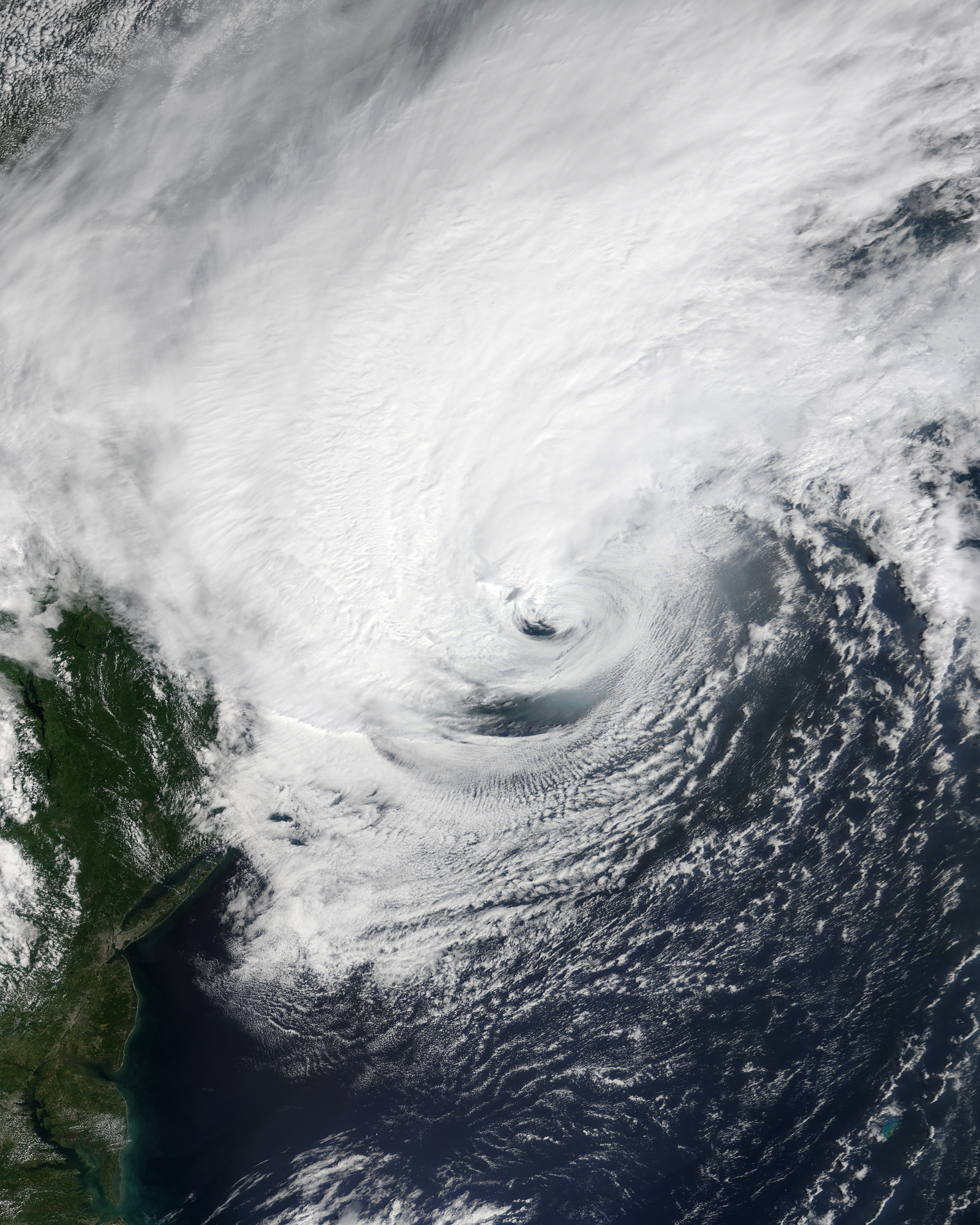 Hurricane Dorian on September 7, 2019